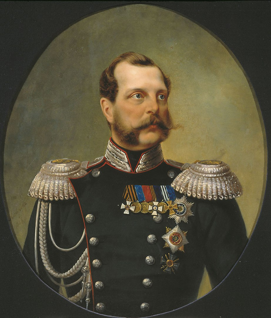 Портрет Олександра ІІ